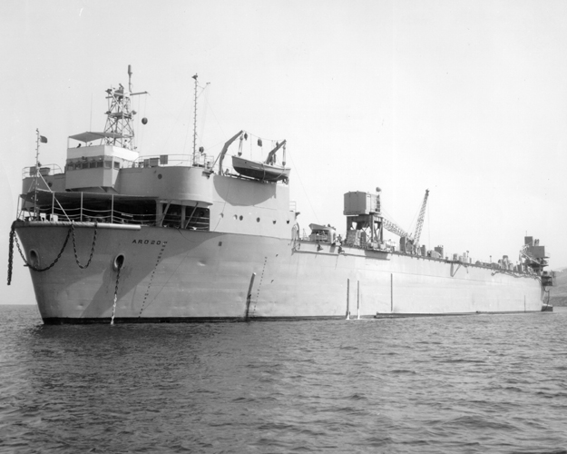 USS ARD-20 at anchor US Navy photo